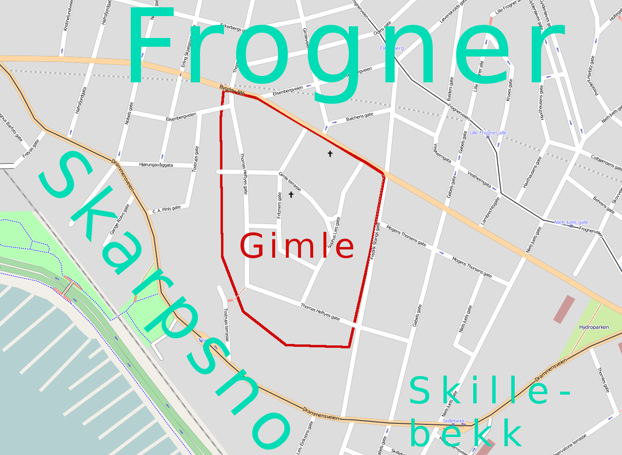 Approximate location of the Oslo area of Gimle (in red).